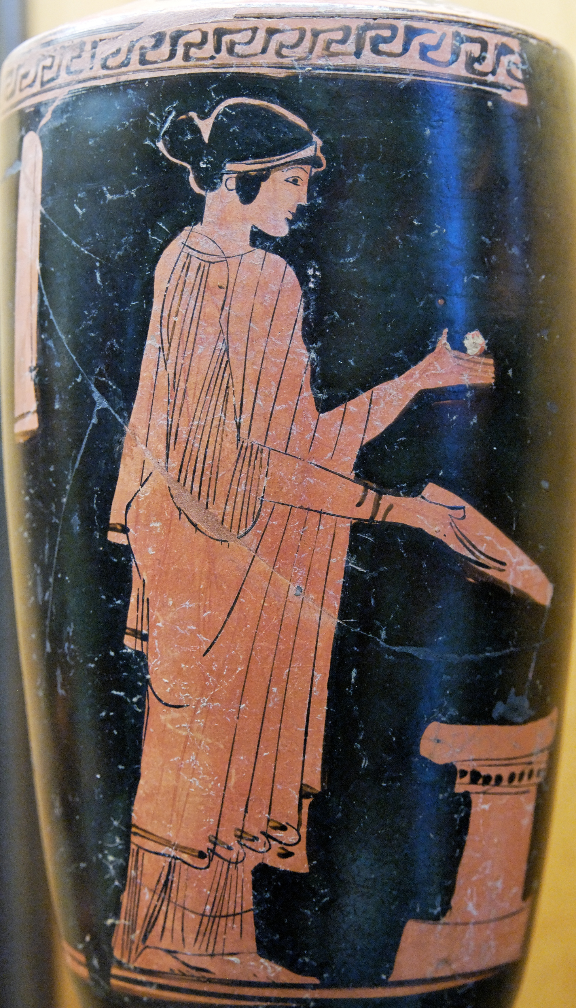 Woman at the altar with phiale and fruit; a sash (?) suspended on the wall. Attic red-figure lekythos, 480–460 BC. From Gela.